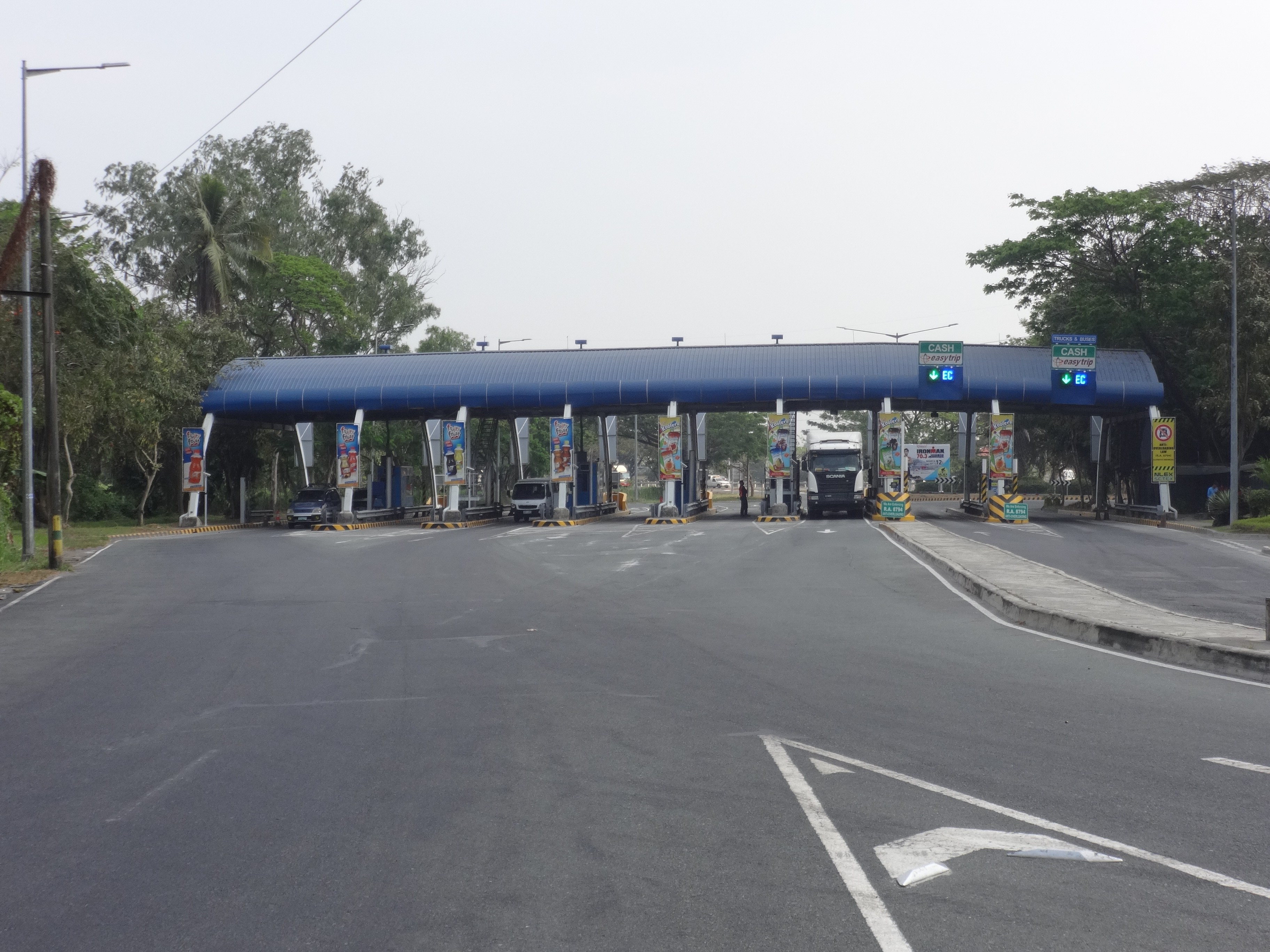 NLEX Santa Rita exit at National Road, Guiguinto, Bulacan